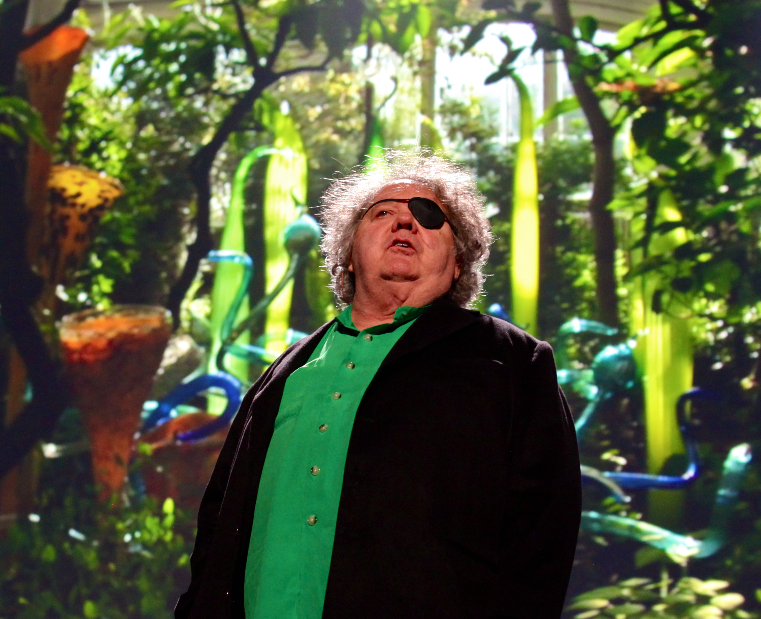 Dale Chihuly at TED 2010.